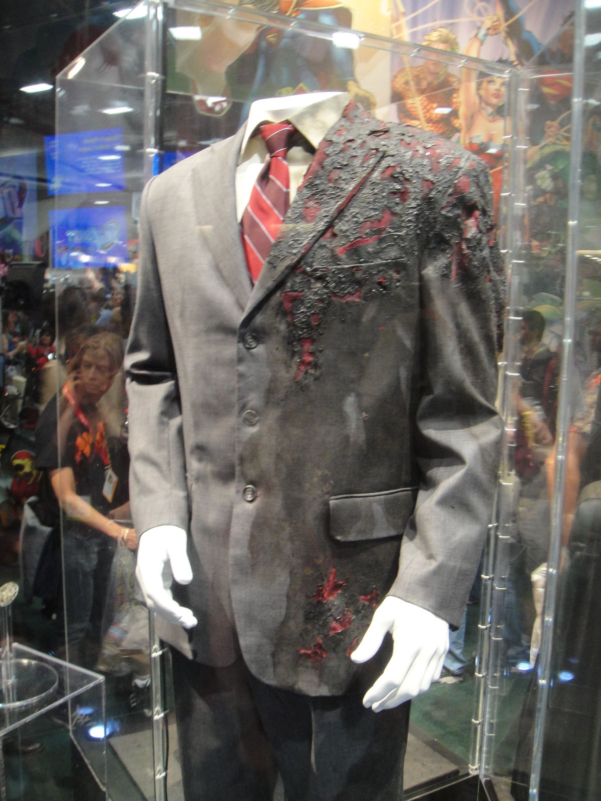 Two-Face suit from the film The Dark Knight displayed at the 2011 Comic-Con International.